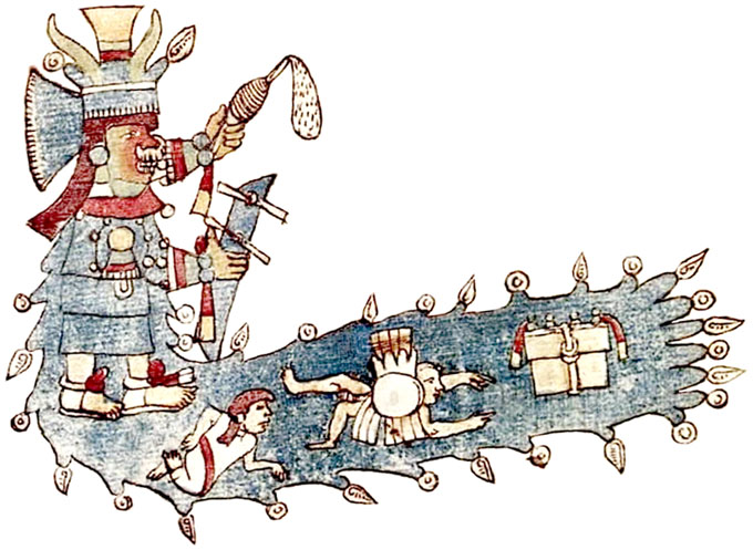 Drawing of (Mesoamerican deity) Chalchiutlicue from (17thC manuscript) Codex Ríos. Original uploader descriptive text: This drawing of Chalciutlicue accompanies page 17 (verso) which depicts the fourth trecena (or 13-day period). Chalciutlicue is shown with implements of spinning and weaving. The figures swimming in the stream emanating in her dress could be read as offspring or as those being carried away toward death. The Codex Ríos, also called Codex Vaticanus A, is a painted copy, made before 1689, of a central Mexican manuscript, now lost. The Codex Telleriano-Remensis is thought to be an earlier Mexican copy of the same lost original.